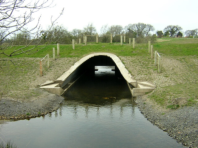 Brock Burn Brock Burn passing under an embankment. It appears to be a flood prevention scheme.